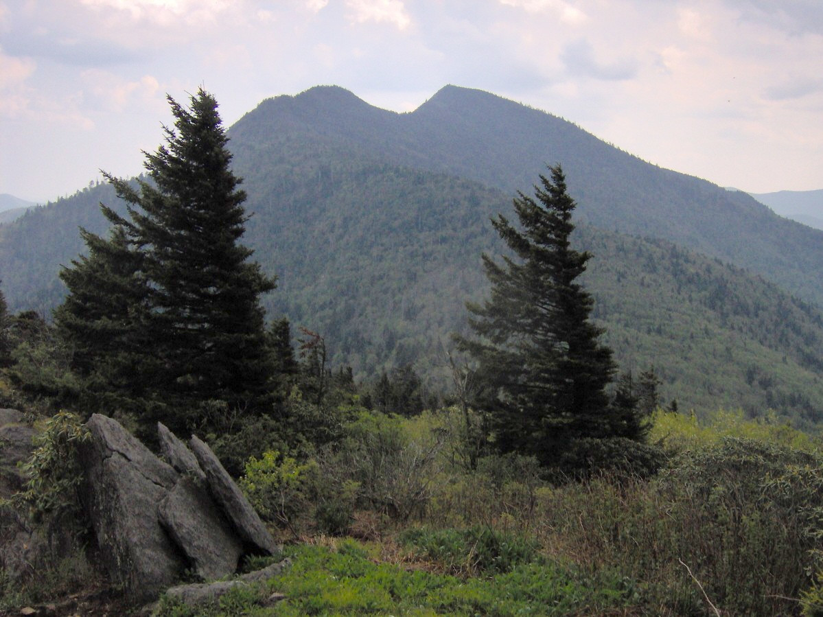 Potato Hill (left) and Cattail Peak (right) viewed from Winter Star Mountain in the Black Mountains of Yancey County, North Carolina, in the southeastern United States. Deep Gap is below and out of view.